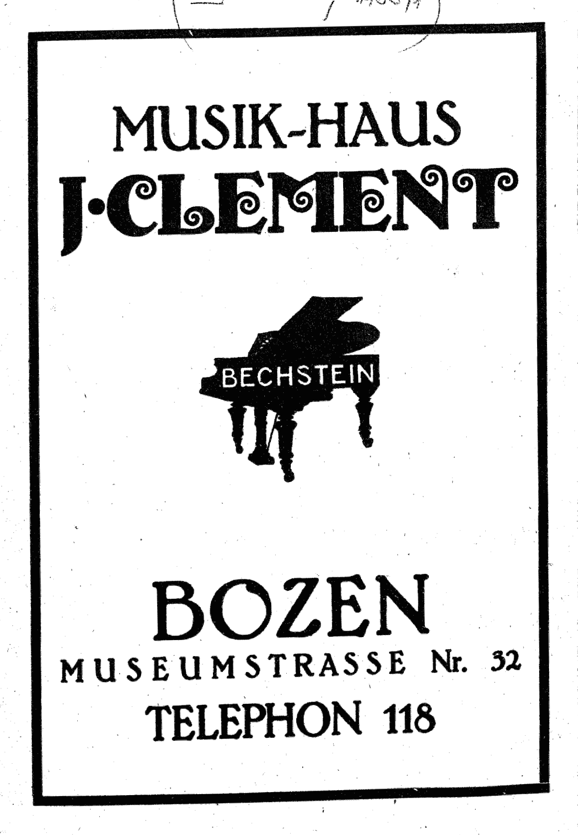 Advertisement for a Bechstein Piano 1925